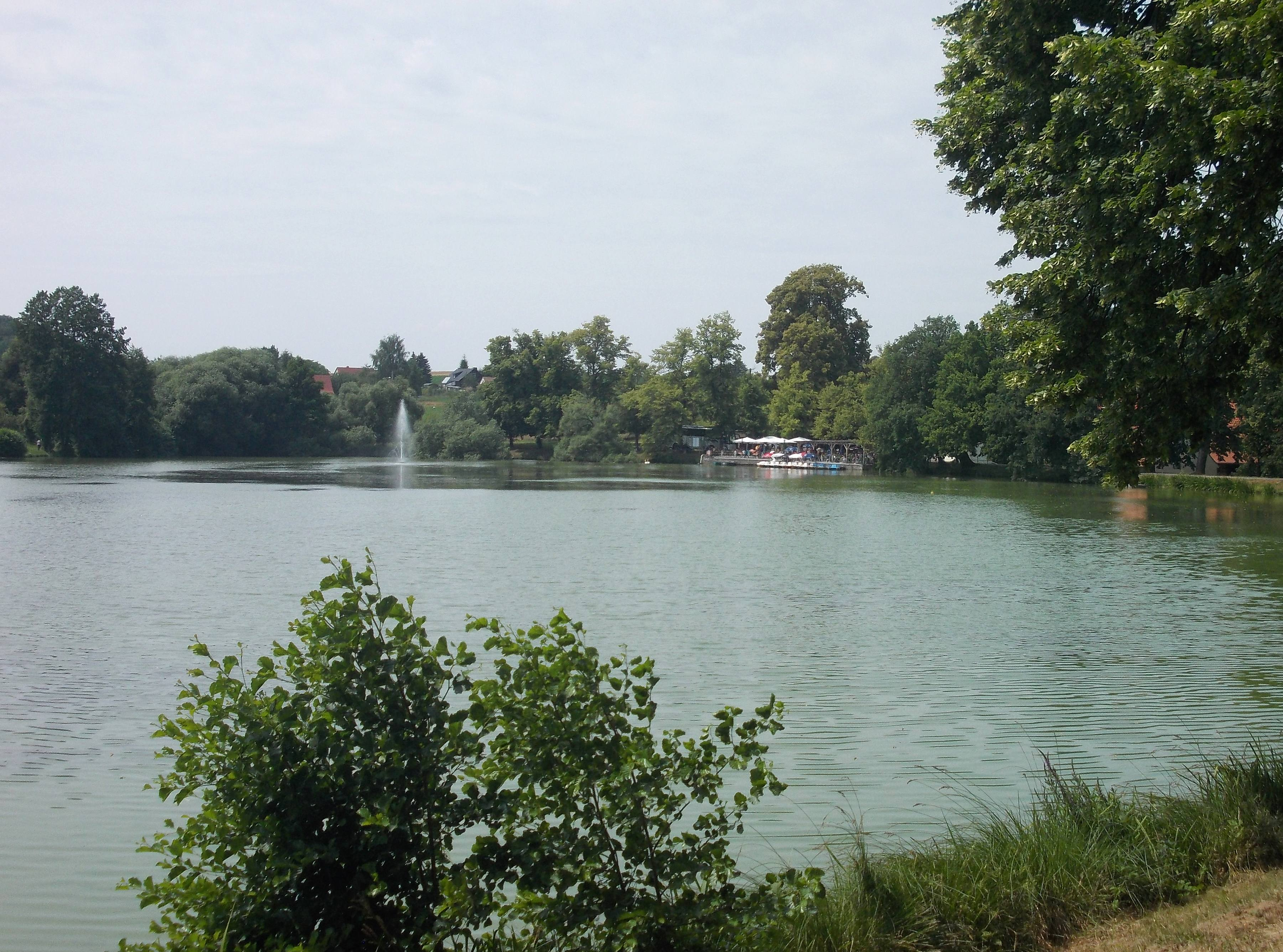 Lindenteich near Linda (Kohren-Sahlis, Leipzig district, Saxony)